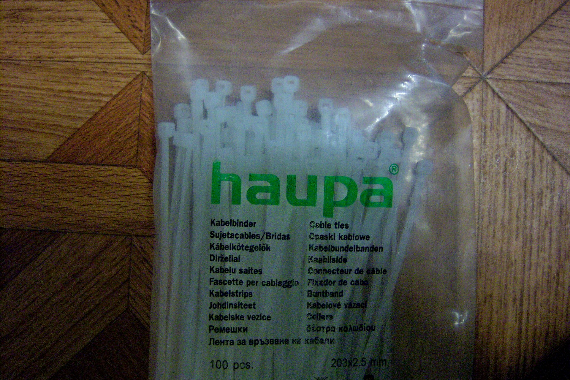 Haupa cable ties. Overview video here.